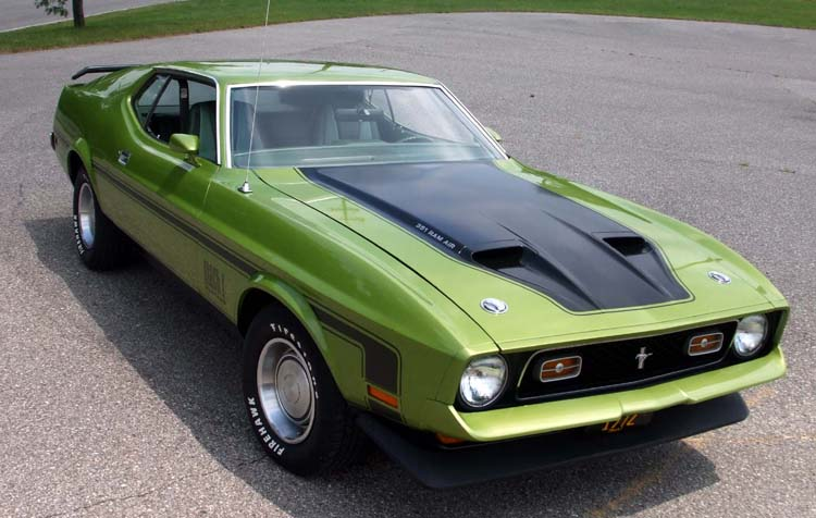 1972 Mustang Mach1 351CJ